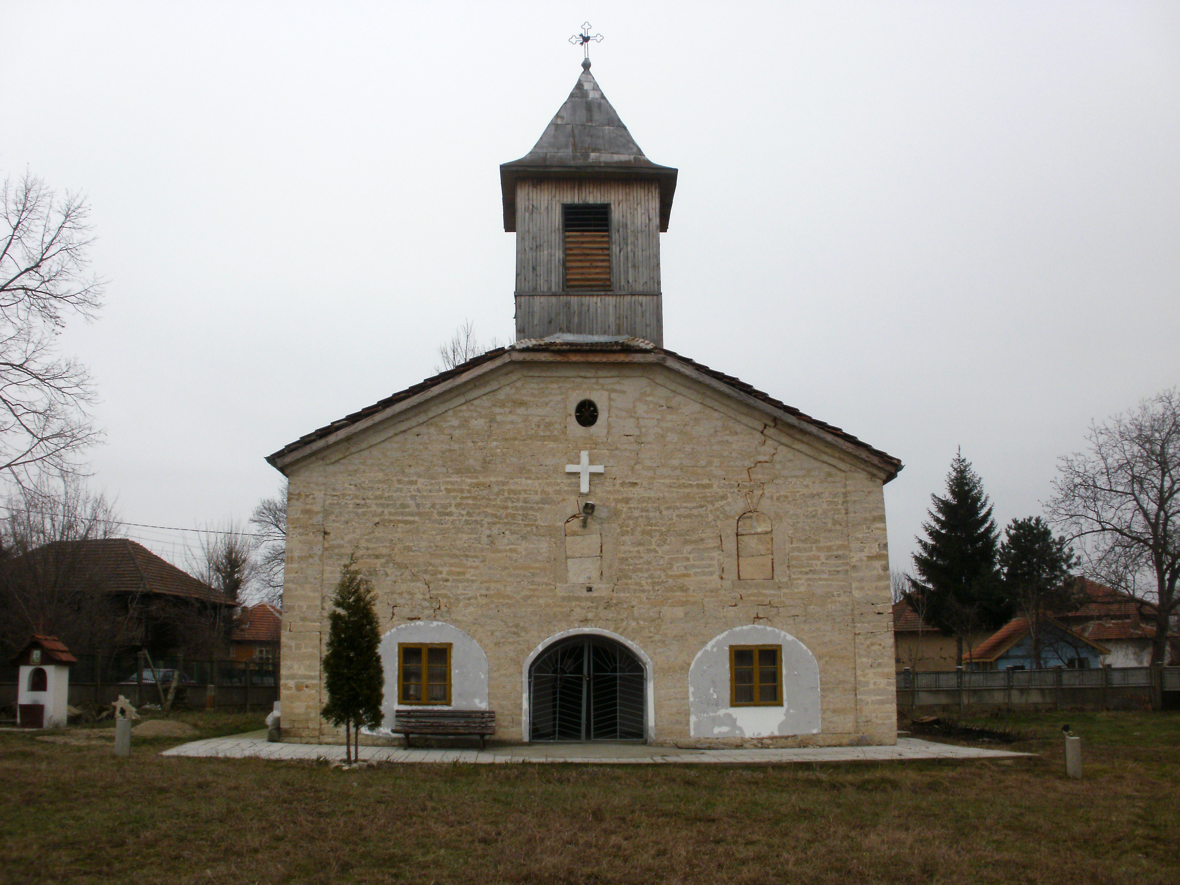 St. Nikola